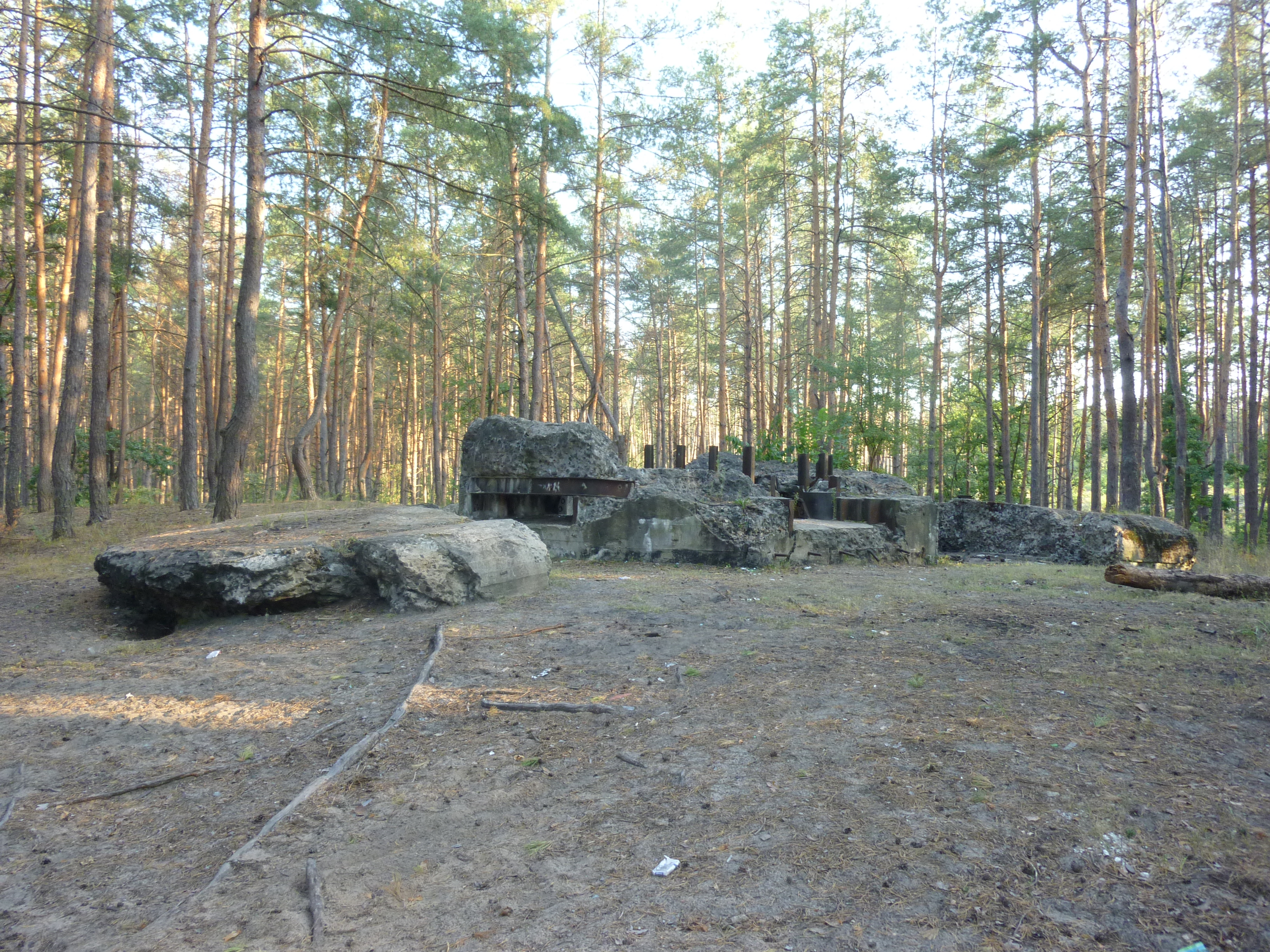 Pillbox 486 (Kyiv Fortified Region)